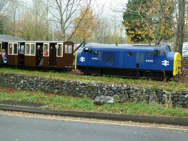 Diesel hauled train - Trago Mills, Data from Geograph: Description: A two loco service for trips to Santa's Grotto. The line has both steam and diesel miniature locomotives. The diesel was sharing with the US style steam locomotive No. 24. ICBM: 50.558178598198, -3.663694732199 Location: (about 0 km from) near to Coldeast, Devon, Great Britain.